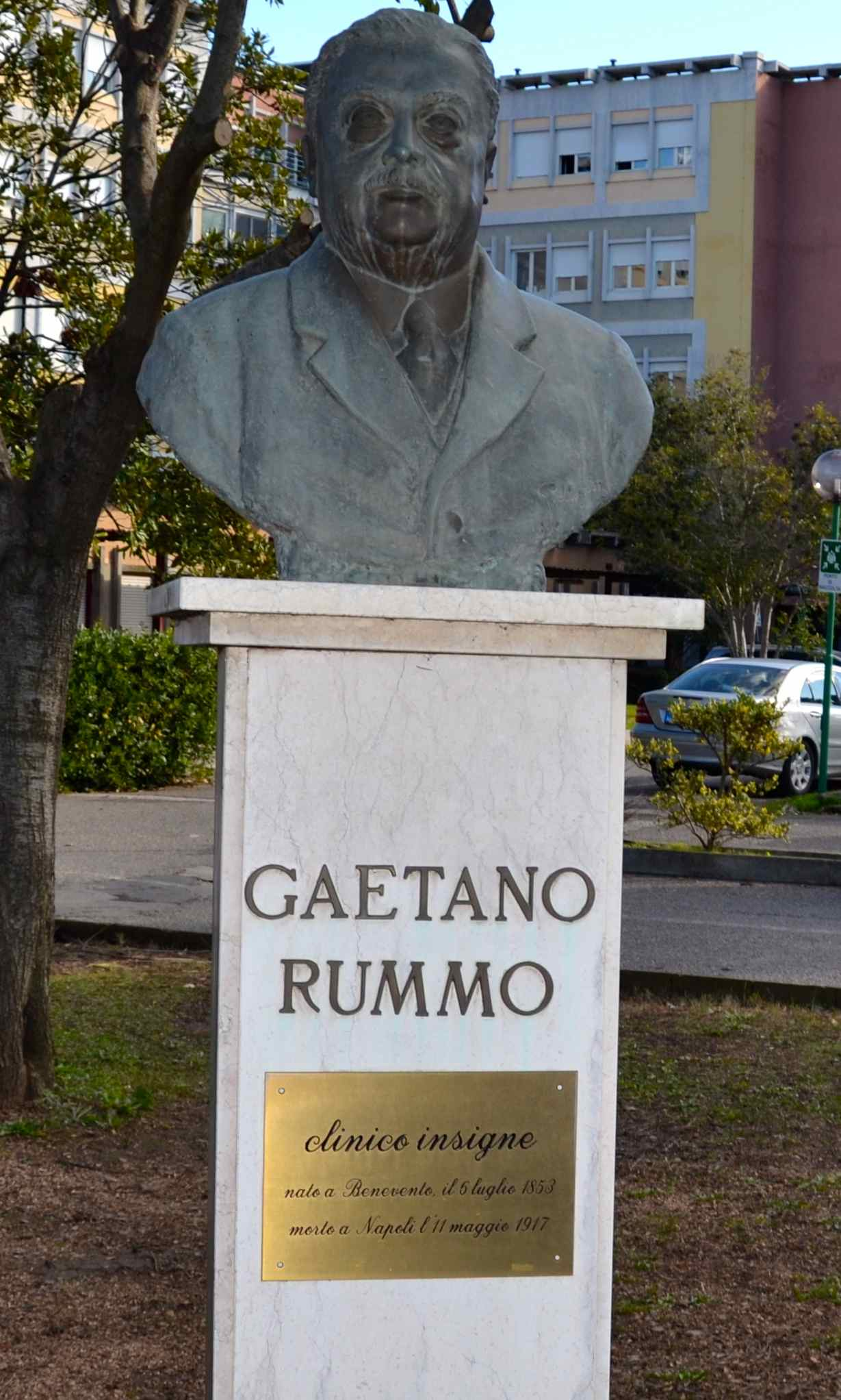 Rummo's bust in the park of the hospital